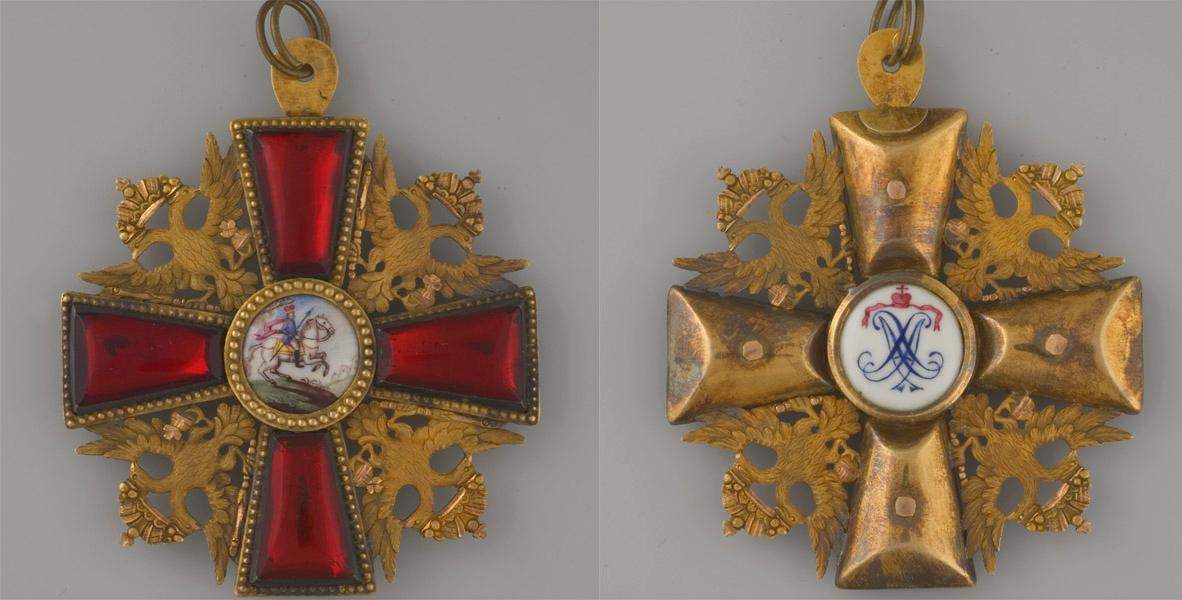 Order of St. Alexander Nevsky